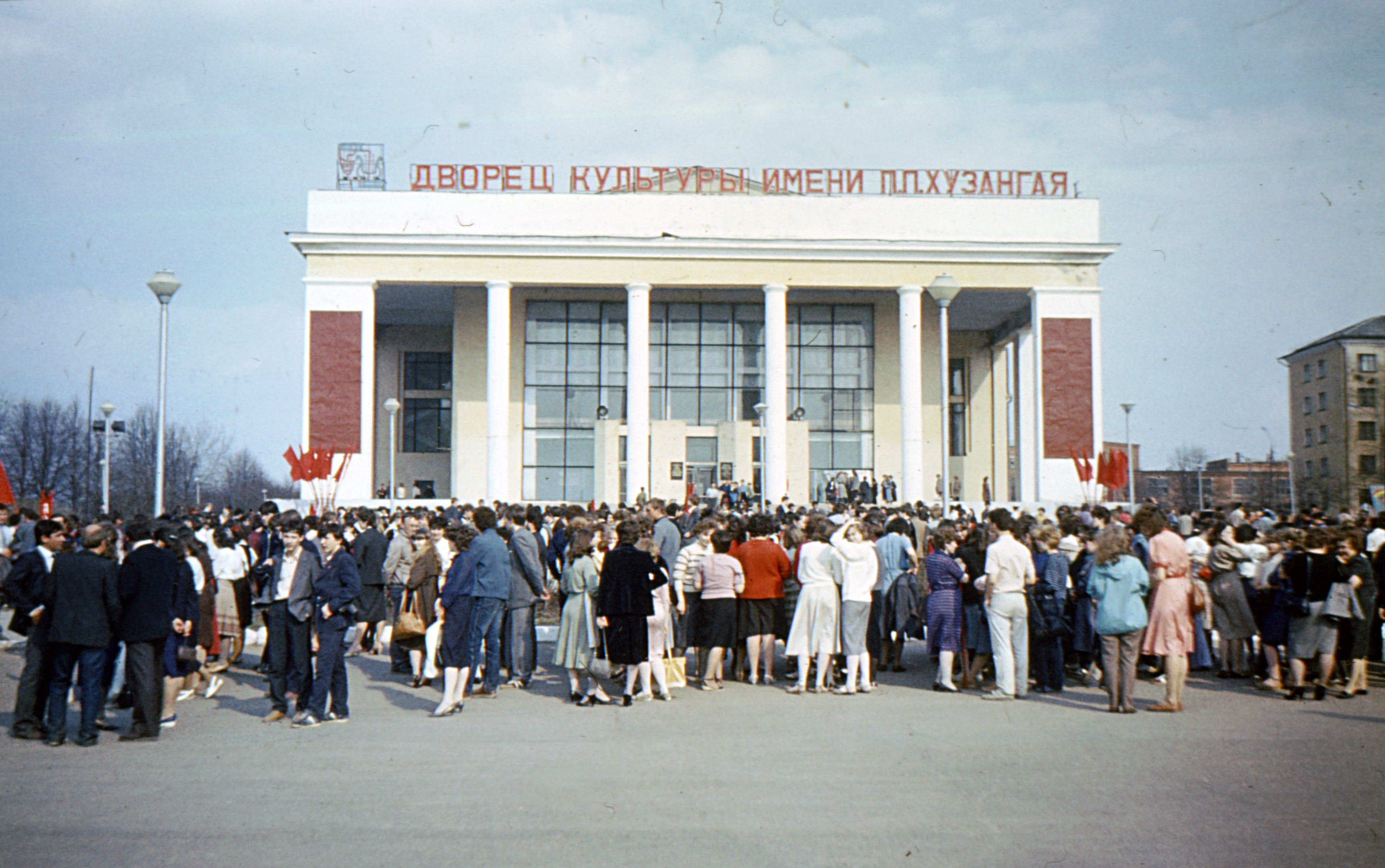 Cheboksary. Young Communists meeting near Palace of Culture named Khuzangay. May, 1987.